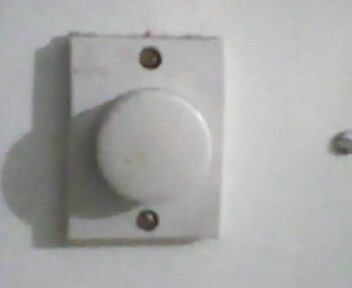 Celing fan regulator in India